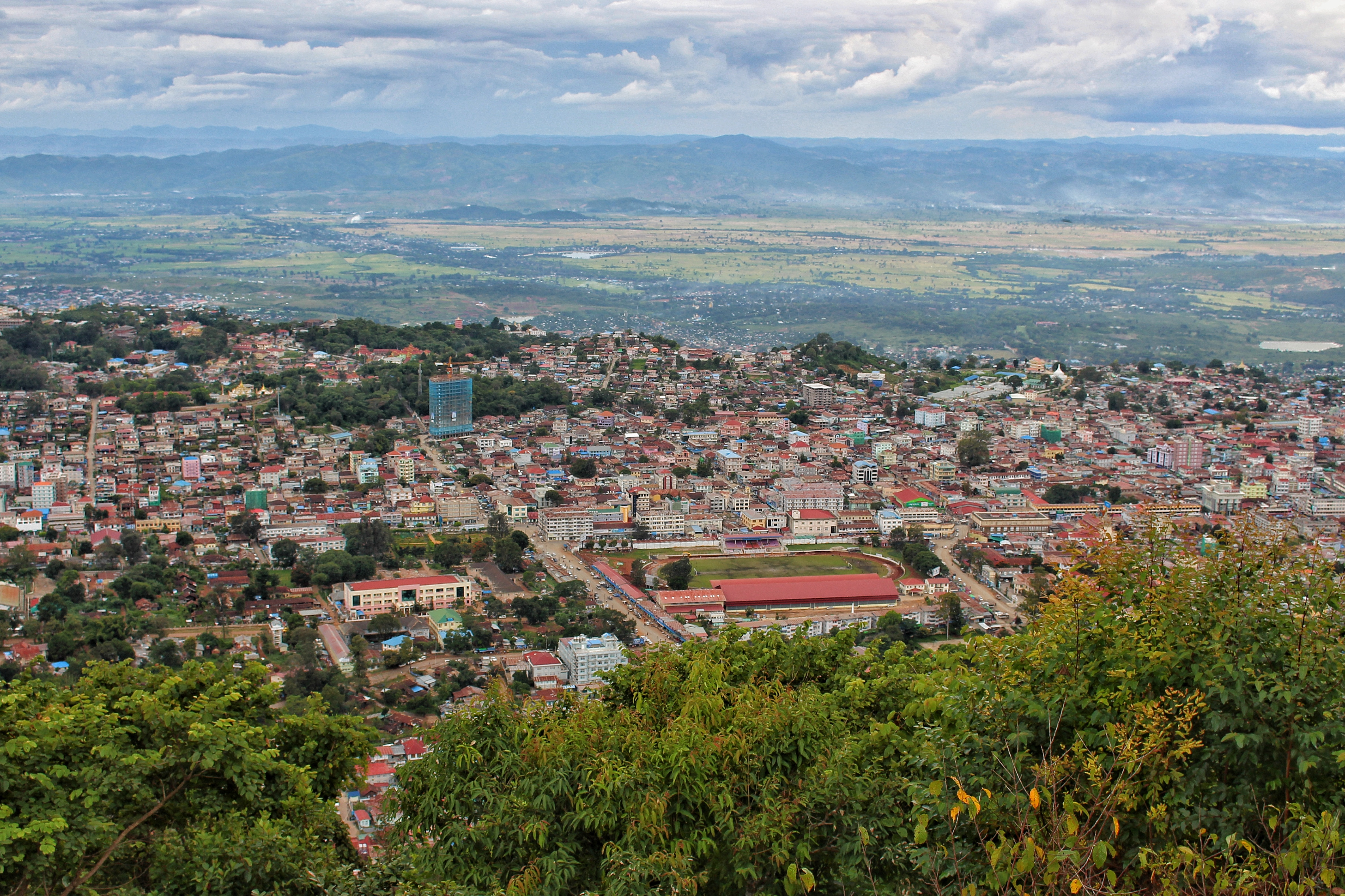 Taunggyi City remote views.